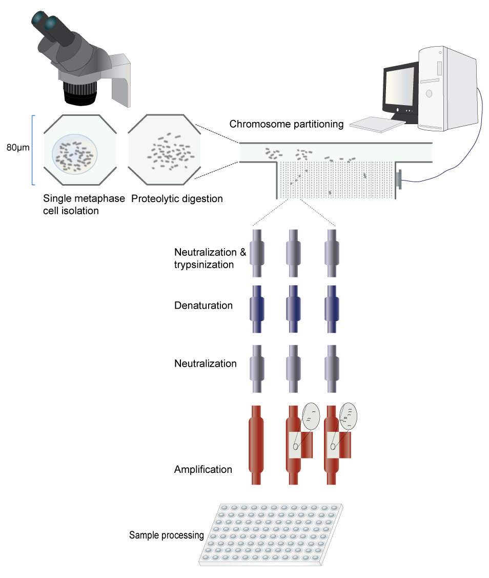 Microfluidics whole chromosome separation workflow